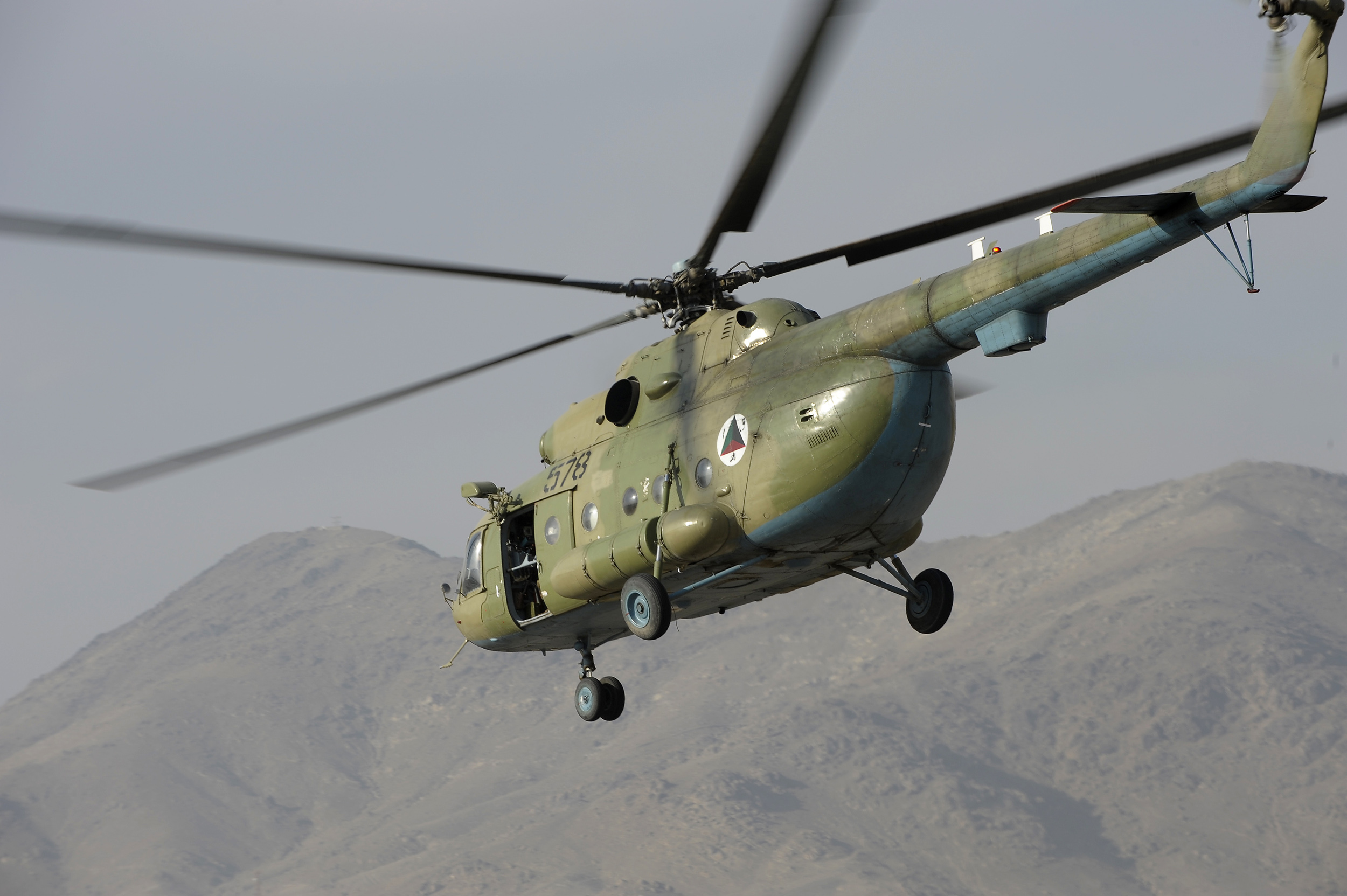 KABUL, Afghanistan -- The Afghan National Army Air Corps received three Mi-17 helicopters, like this one taking off on a mission from Kabul. The new helicopters were refurbished in the Chech Republic and transported here in a contracted AH-124 Russian transport. The three helicopters will add to the ANAAC fleet and help the Air Corps increase their missions supporting the Afghan National Army. The ANAAC is being mentored by Airman from the 438th Air Expeditionary Wing here. (U.S. Air Force photo/Master Sgt. Keith Brown)